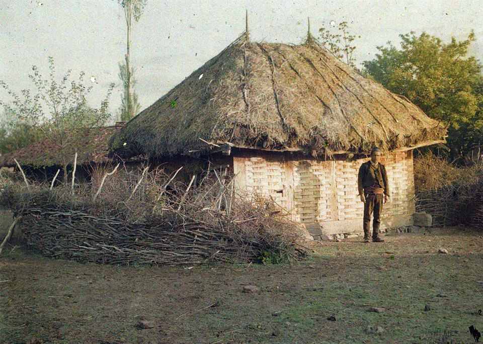 Home of a married couple with a wattle fence. Gračanica 5. May 1913.